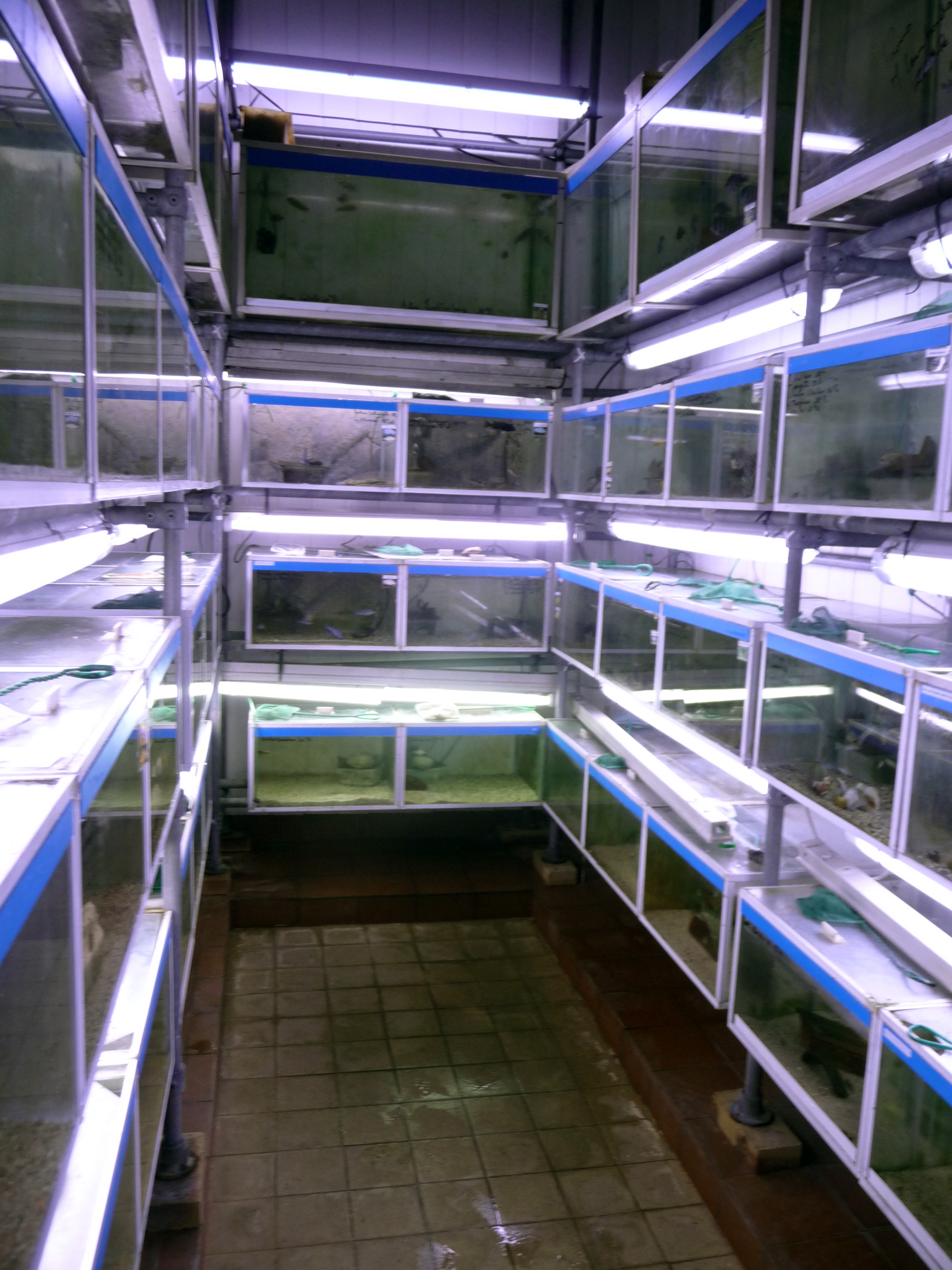 A fish-room in Paris.